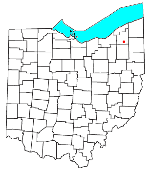 Locator map of the unincorporated community of Welshfield in Geauga County, Ohio, United States.